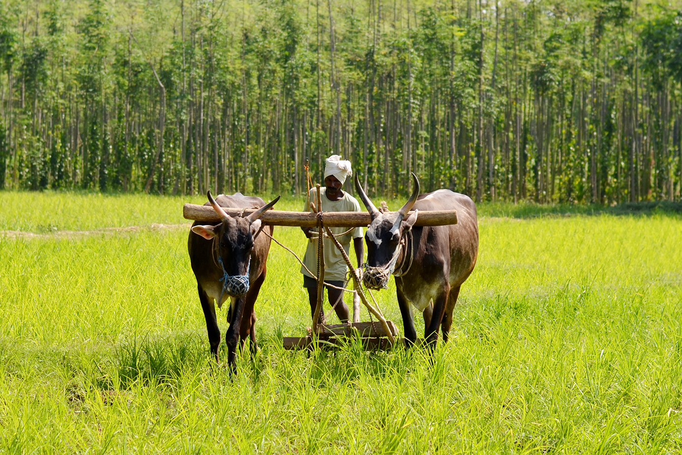 Traditional ploughing - Bihar